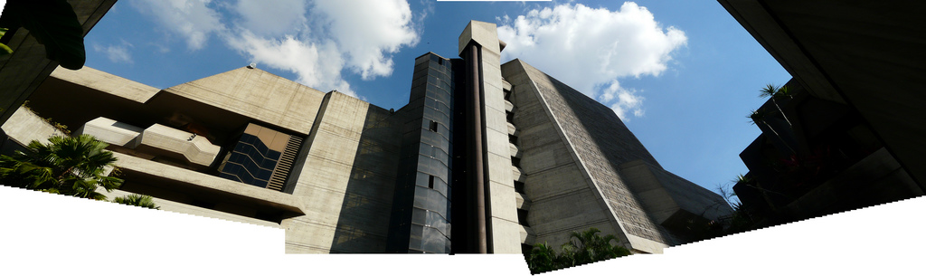 Teresa Carreño Cultural Complex Panoramic. Caracas, Venezuela